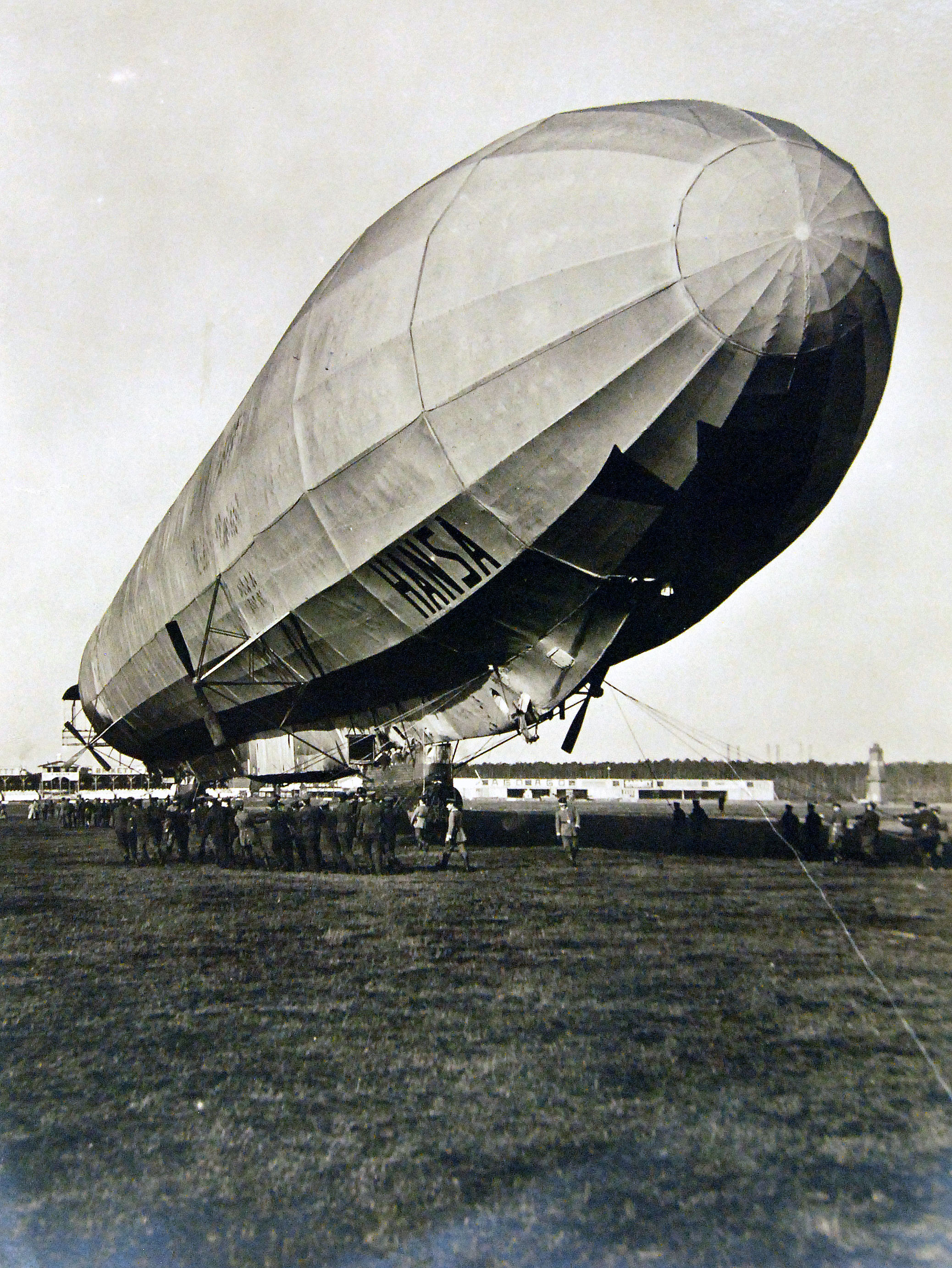 Lot 3619-3 (LC-USZ62-15800): German Military Activities, World War I. School maneuver of the Zeppelin “Hansa” near Berlin, Germany. Photograph by F.J.M. Reshe, Munchen, Germany. (10/2/2015).